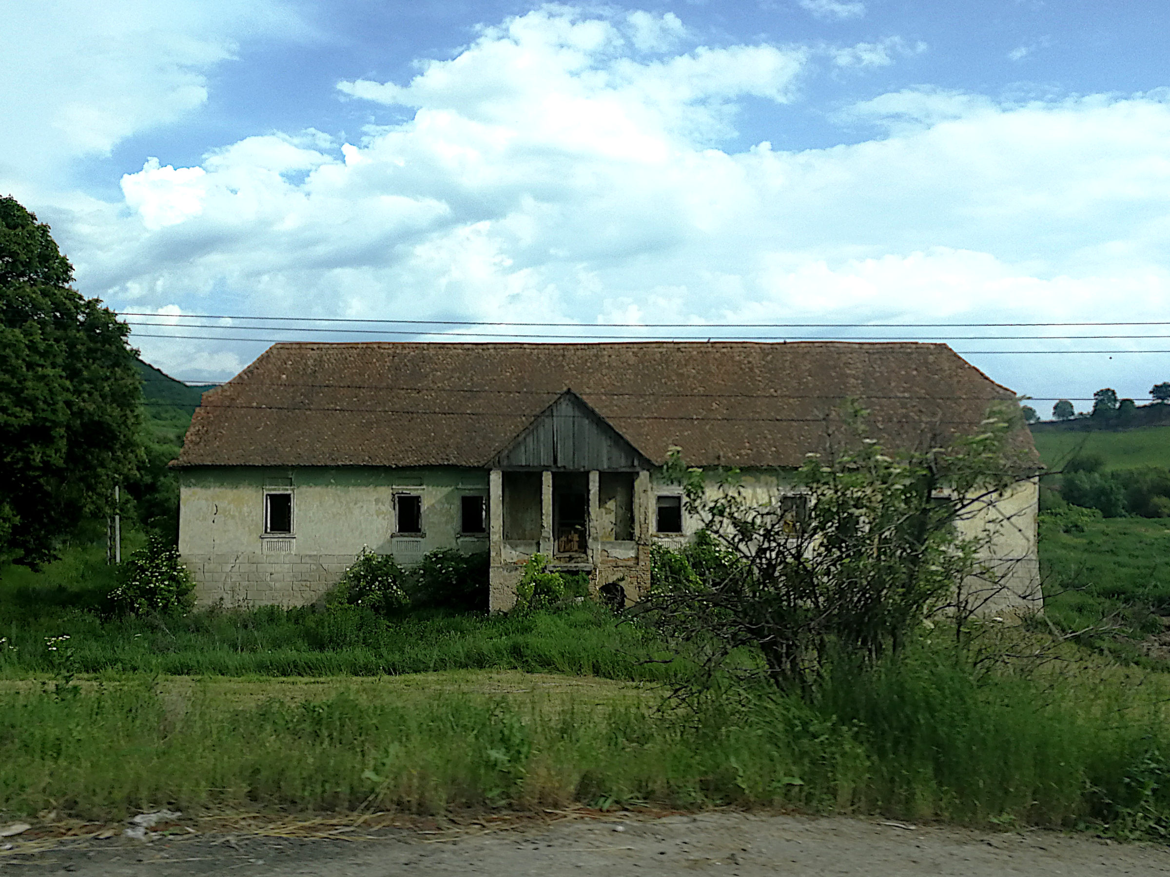 Ruins of Haller castle (16th century) in Mihai Viteazu (Zoltan) village, Mures county, Romania